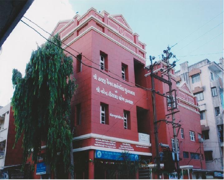 Sayaji Vaibhav Public Library, Navsari, Gujarat, India.